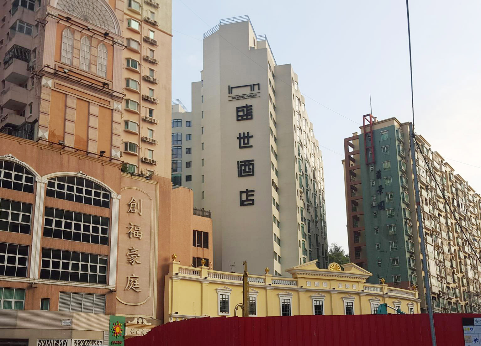 Inn Hotel Macau